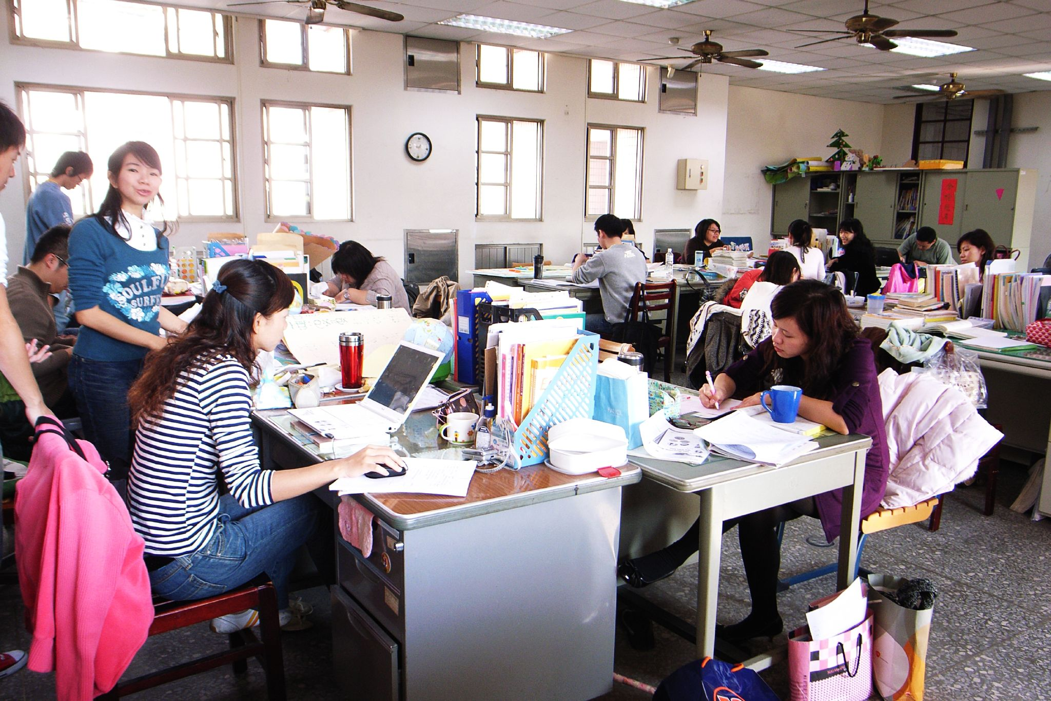 Teachers working in the Taichung Municipal Kuang-Ming Junior High School in Taichung City, Taiwan.